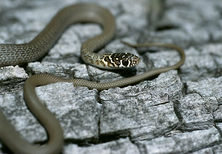 A young Green Whip Snake (Hierophis viridiflavus) with the characteristic coloration of the juvenils.